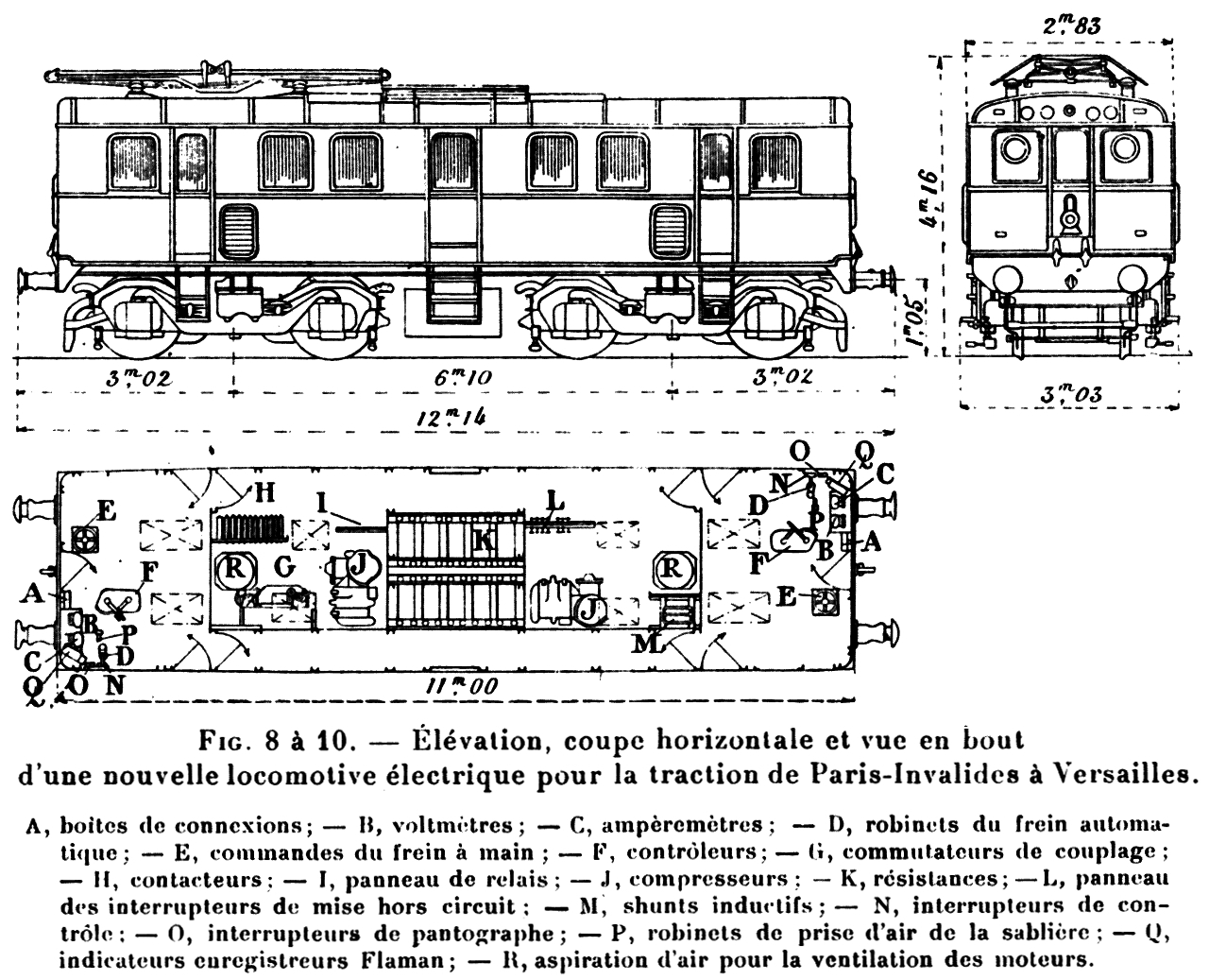 Drawing of electric locomotive Etat Z 6000, 1924.